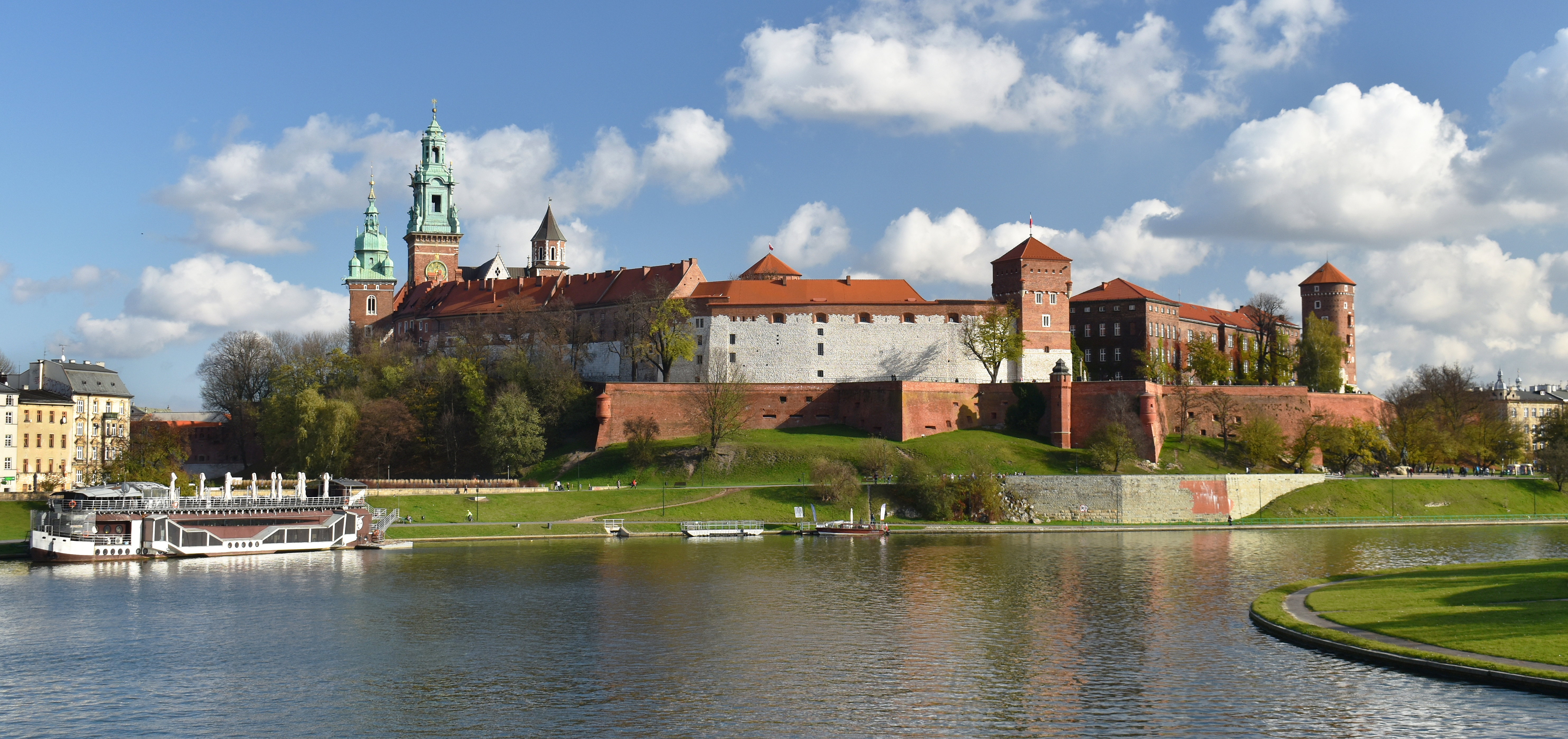 Wawel hill (view from W), Old Town, Krakow, Poland